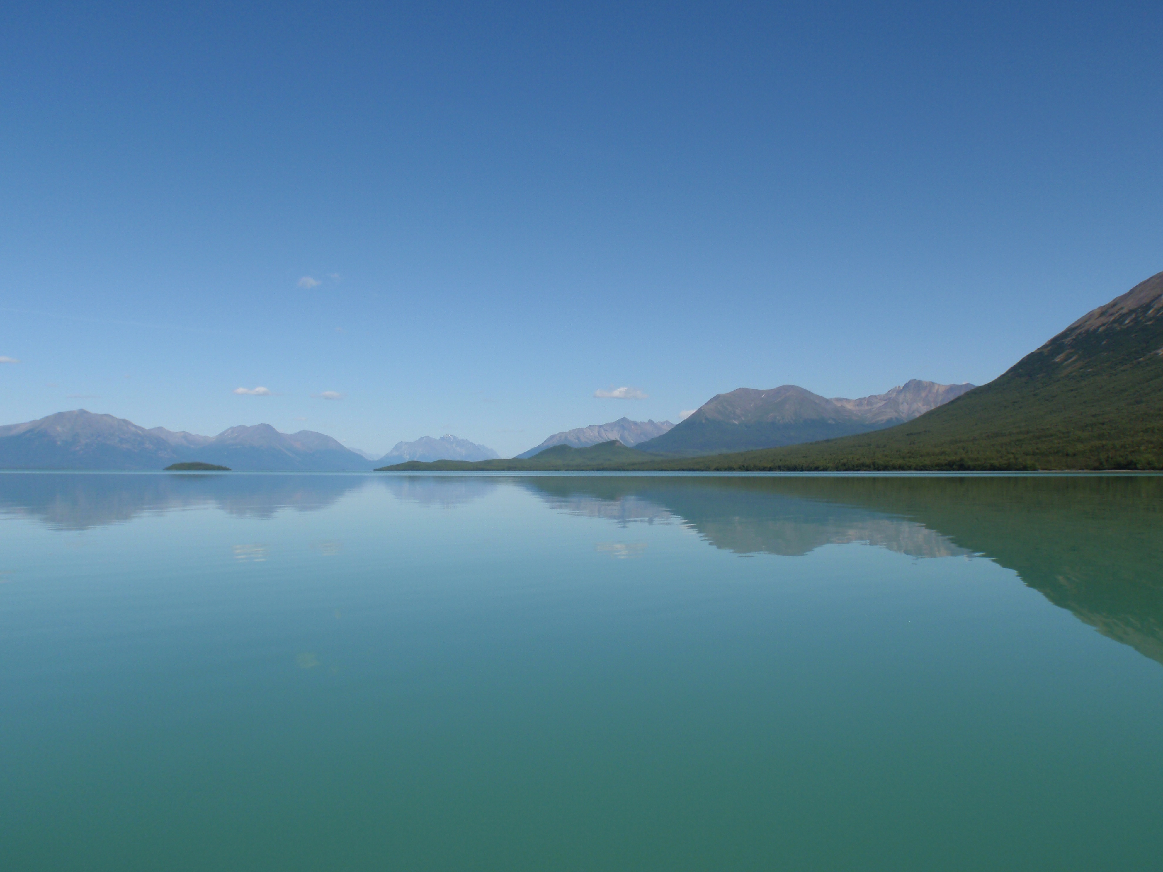 Lake Clark, Lake Clark National Park and Preserve